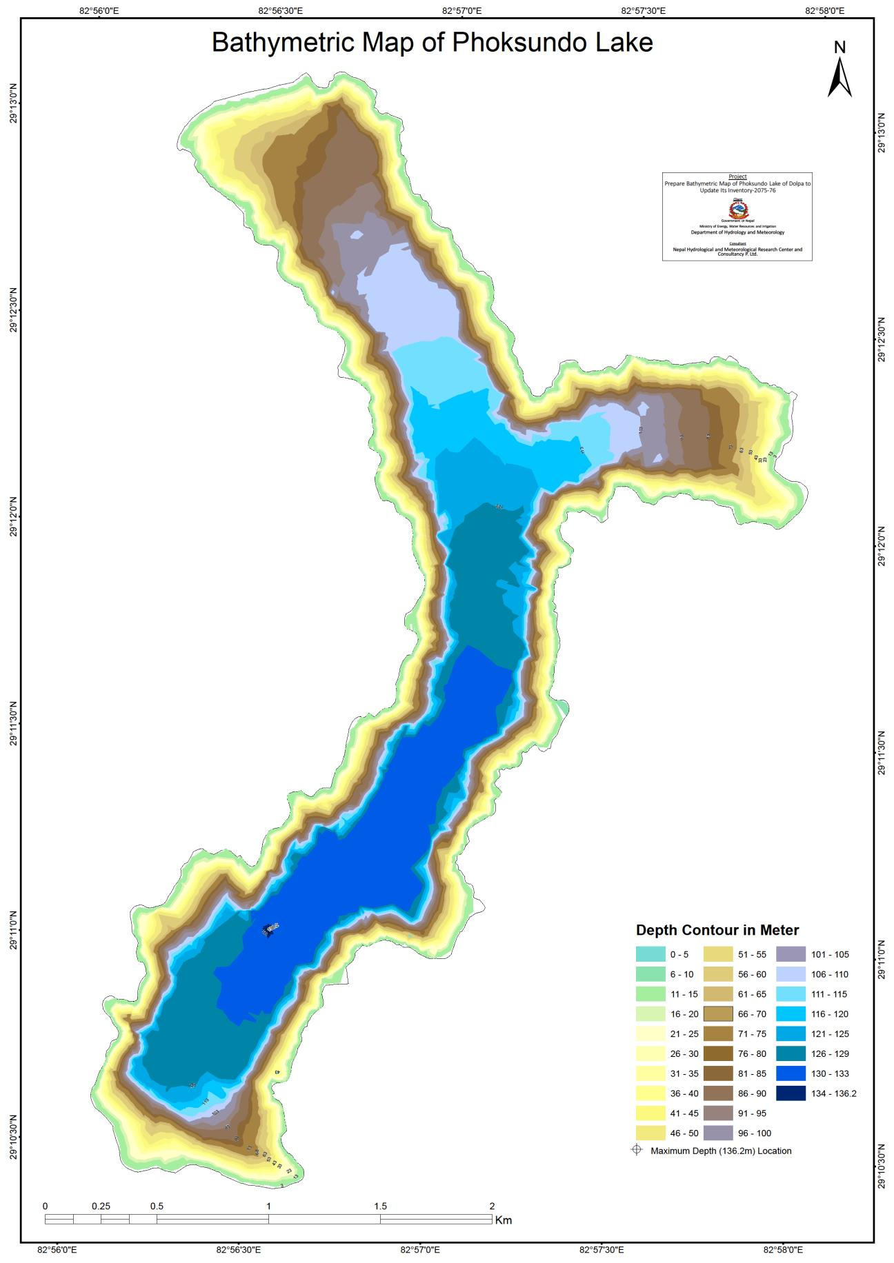 Bathymetric Map of Phoksundo Lake published by The Department of Hydrology and Meteorology Nepal. Consultancy work was done by Nepal Hydrological and Meteorological Research Center and Consultancy Pvt. Ltd.